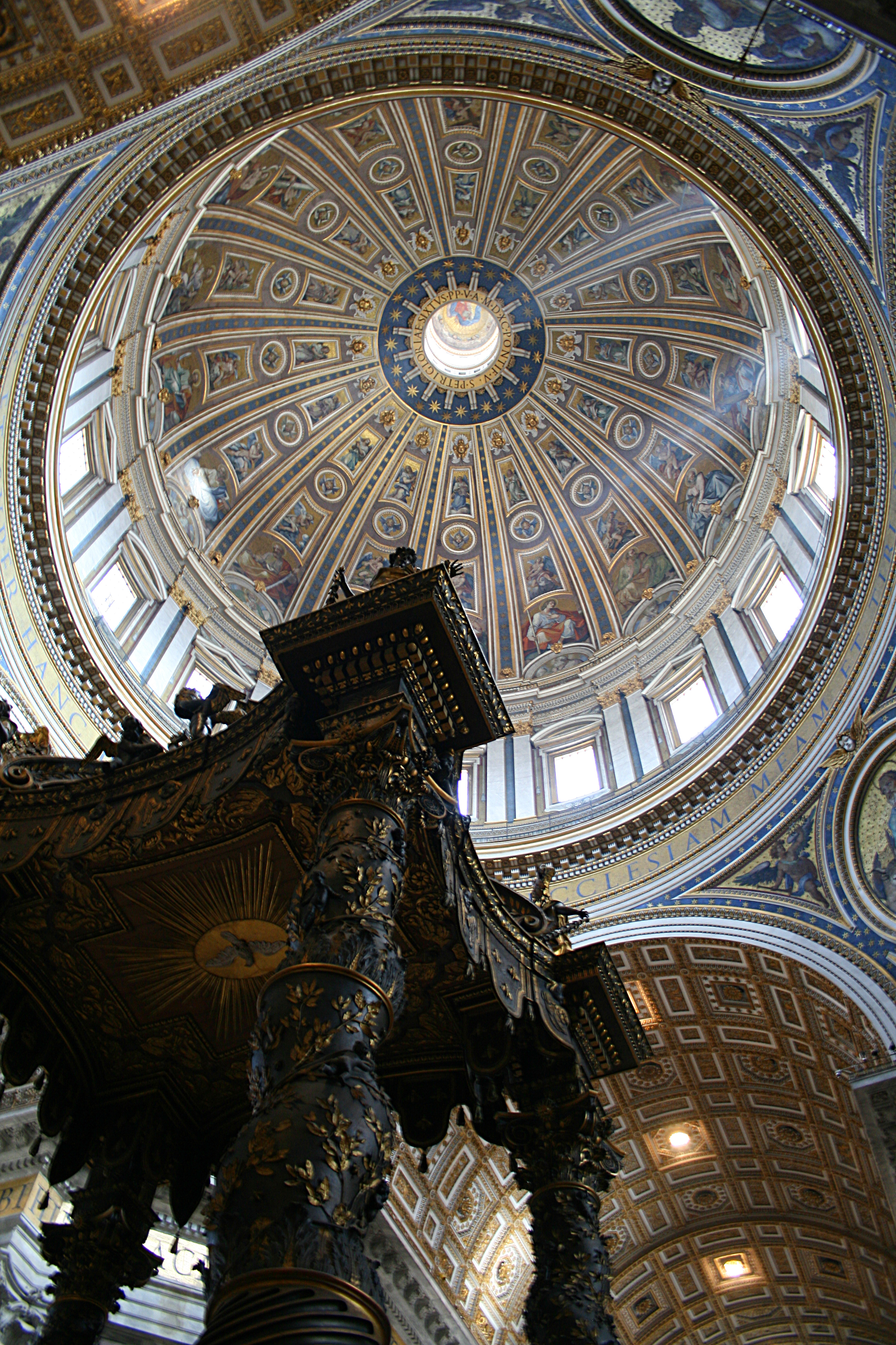 Dome and baldacchino of the St. Peter's Basilica in Vatican City.